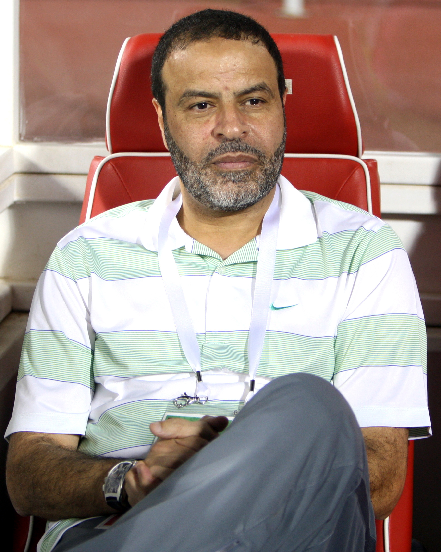 Al Ahli coach Abdullah Mubarak during his team's Qatar Stars League match against Lekhwiya. Pic by Mohan